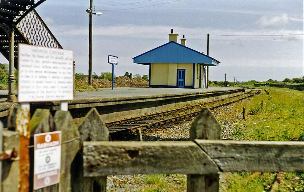 Bridgetown Station, near to Baile an Droichid, Cohunon and Baldwinstown, Wexford, Ireland. View eastward, towards Rosslare; ex-Great Southern & Western, Rosslare - Waterford - Limerick line. As with Ballycullane, this station has been closed recently (18/9/10).